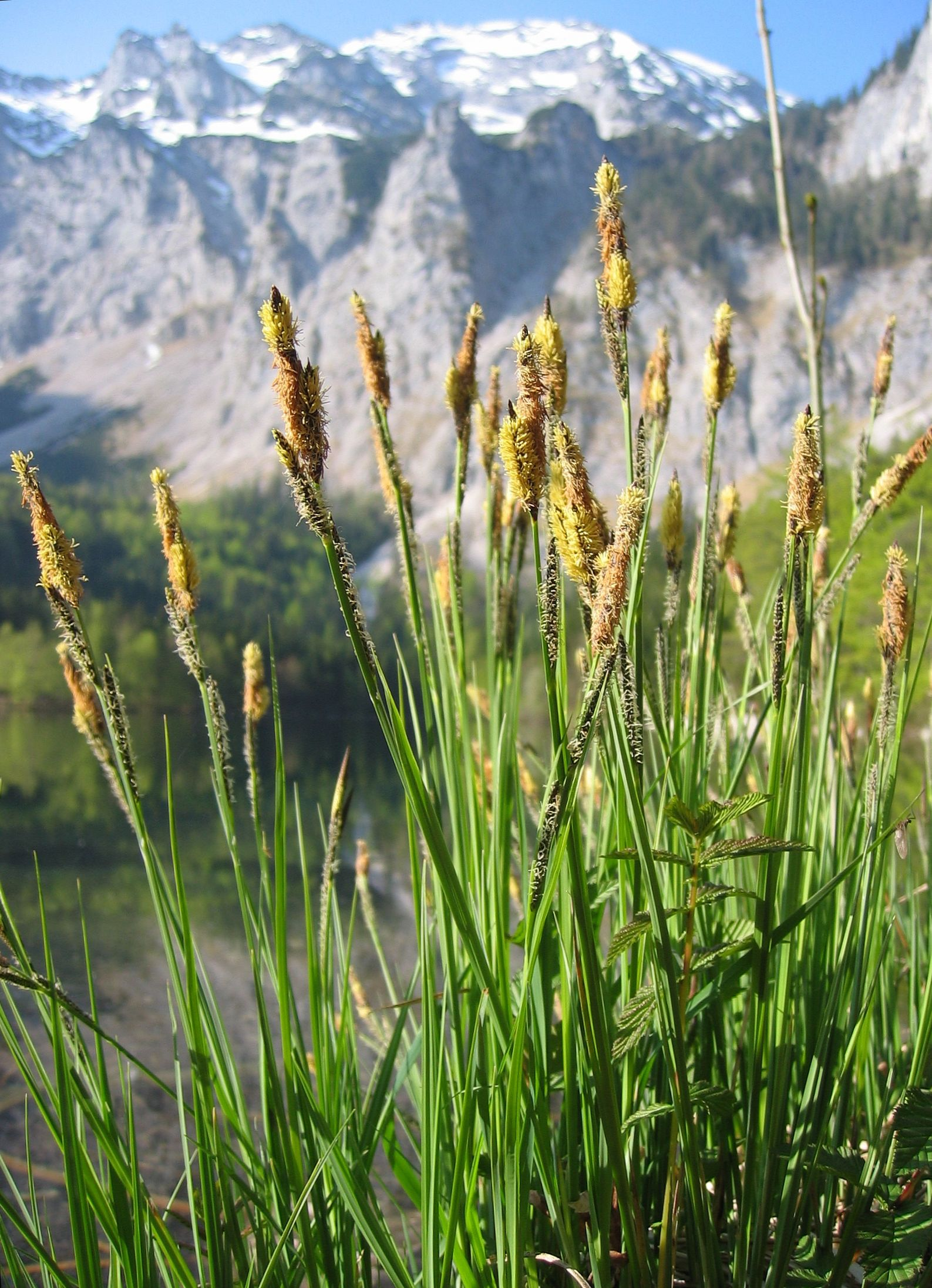 Carex elata, Hinterer Langbathsee, Upper Austria, Austria